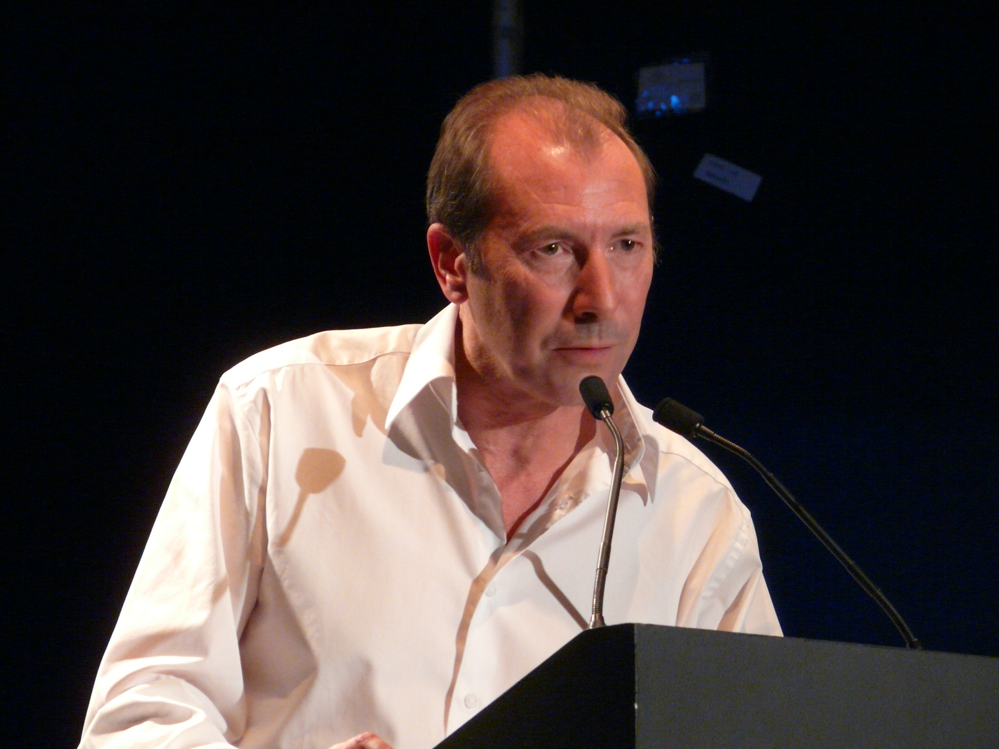 David Lloyd Event at Harrods Store (Brompton, London, England).